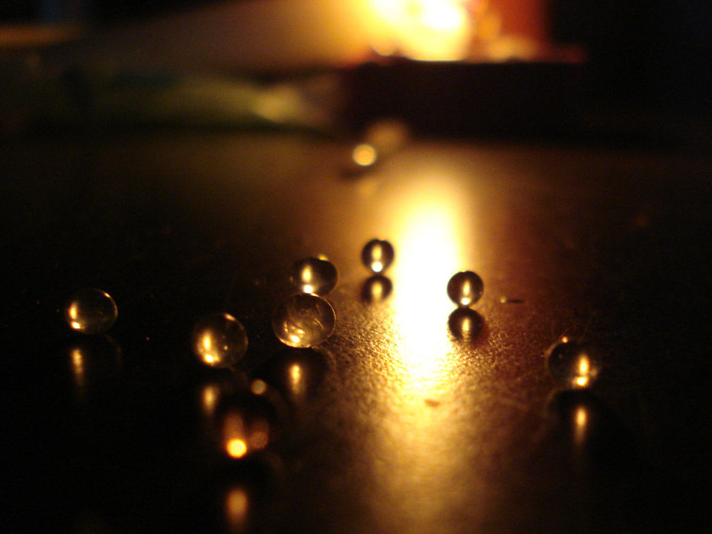 Silica Gel